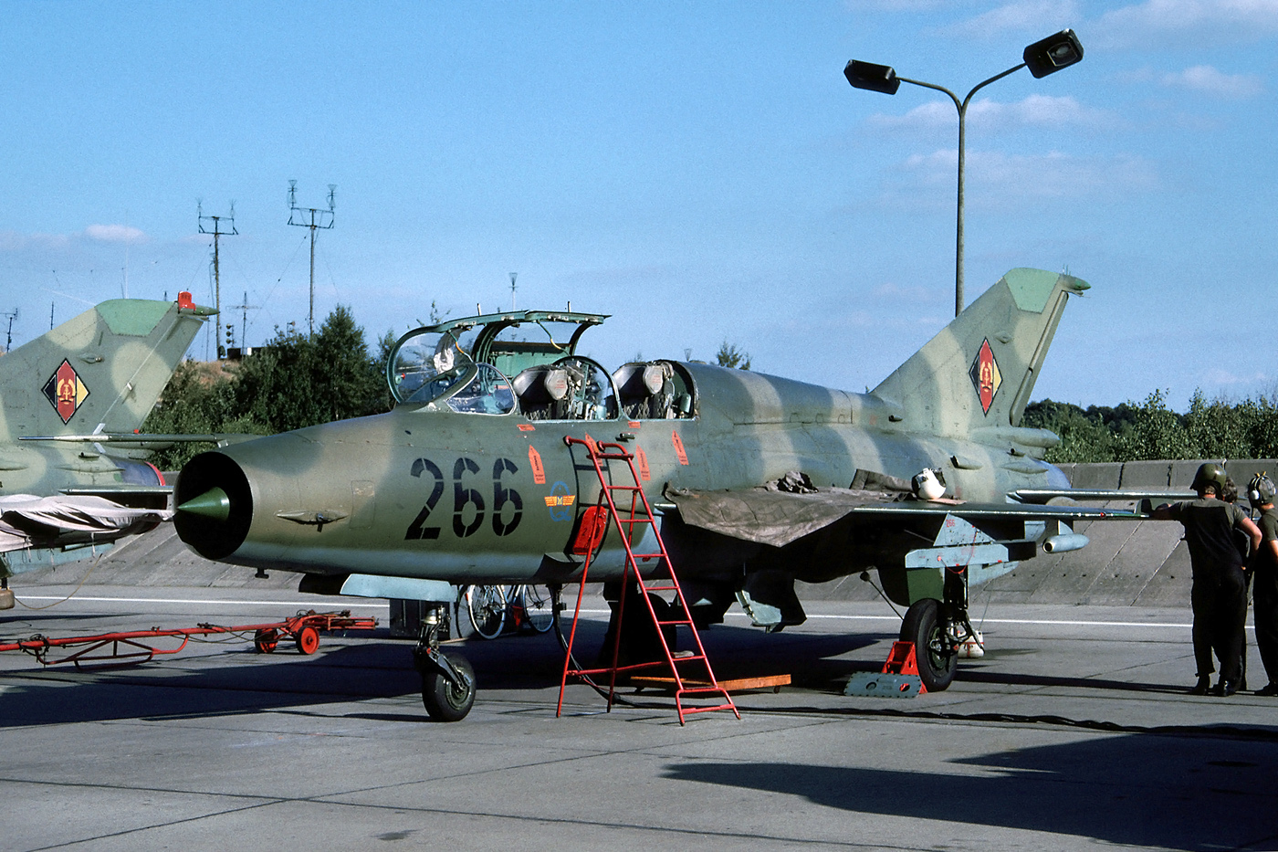 One of the two seaters of Taktische Aufklärungsfliegerstaffel 87 (Tactical Reconnaissance Squadron 87) on the flightline of Preschen. 23 Augustus 1990 266 is preserved in the town of Niedersfeld.